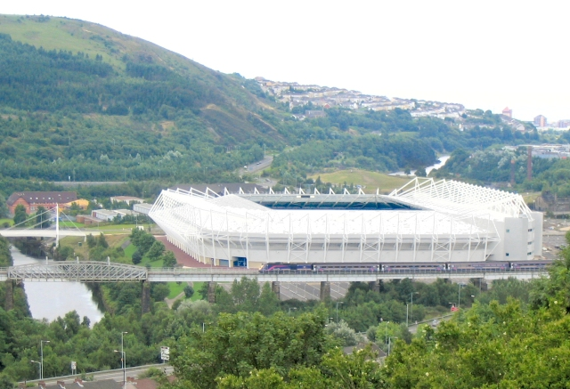 New Morfa Stadium. Swansea's new Football & Rugby 'Liberty Stadium' next to the River Tawe, near the Morfa retail park.